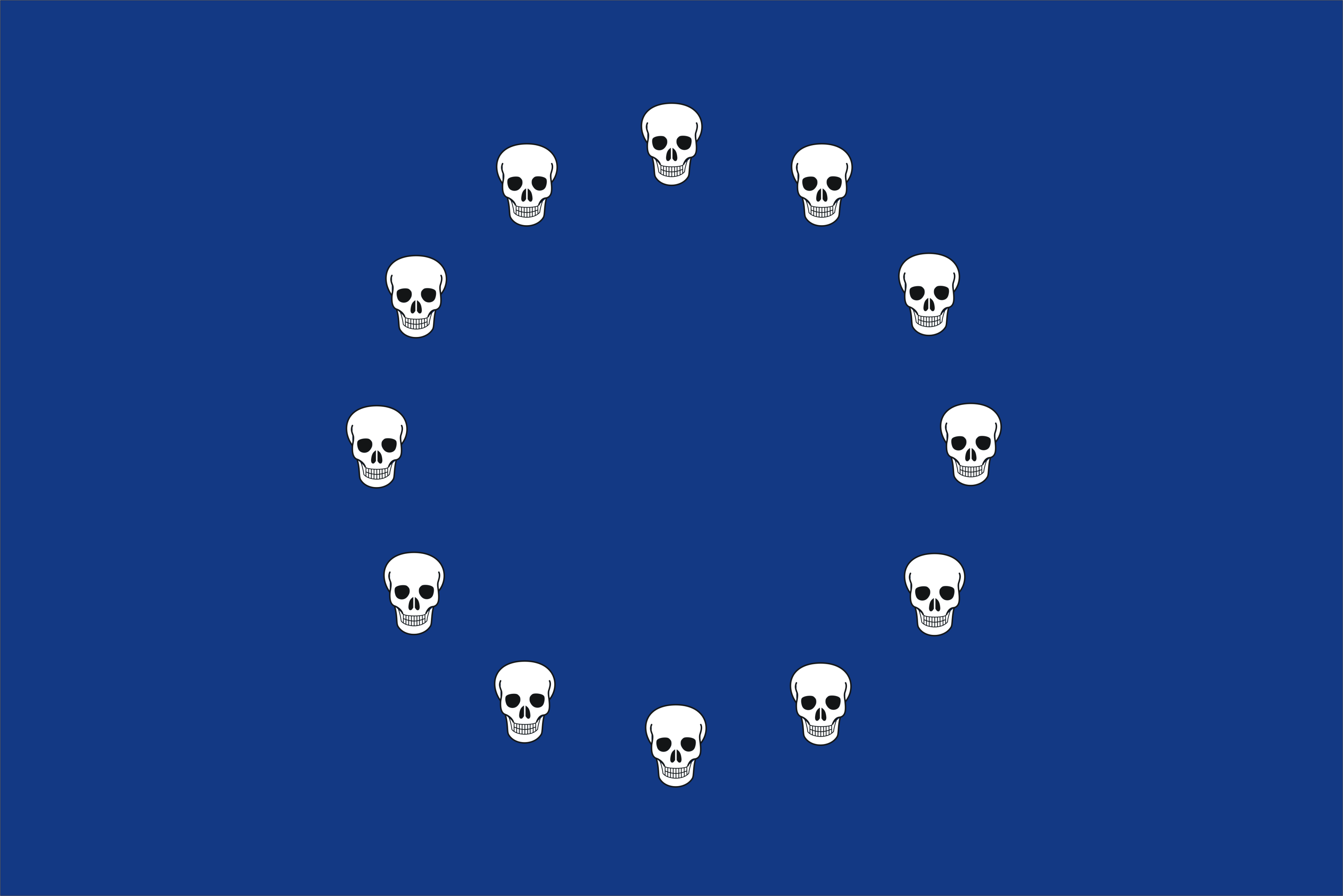 European migrant crisis flag